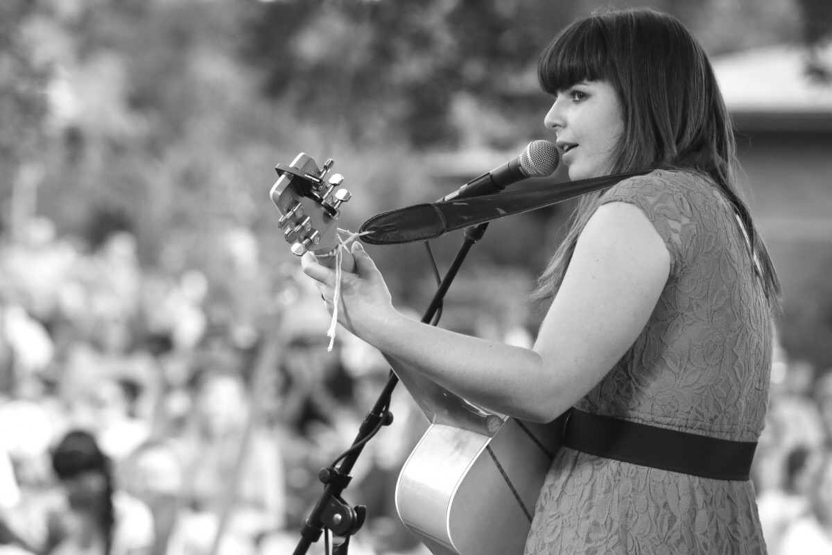 Beth Bombara, Americana Musician, performing at the Missouri Botanical Garden